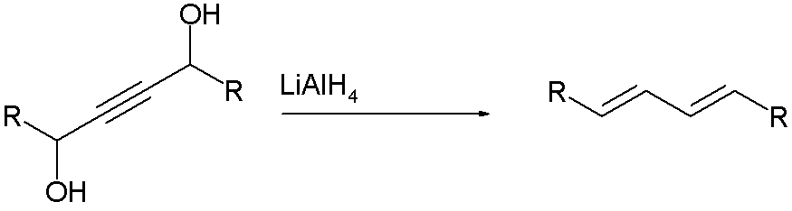 Whiting Reaction General